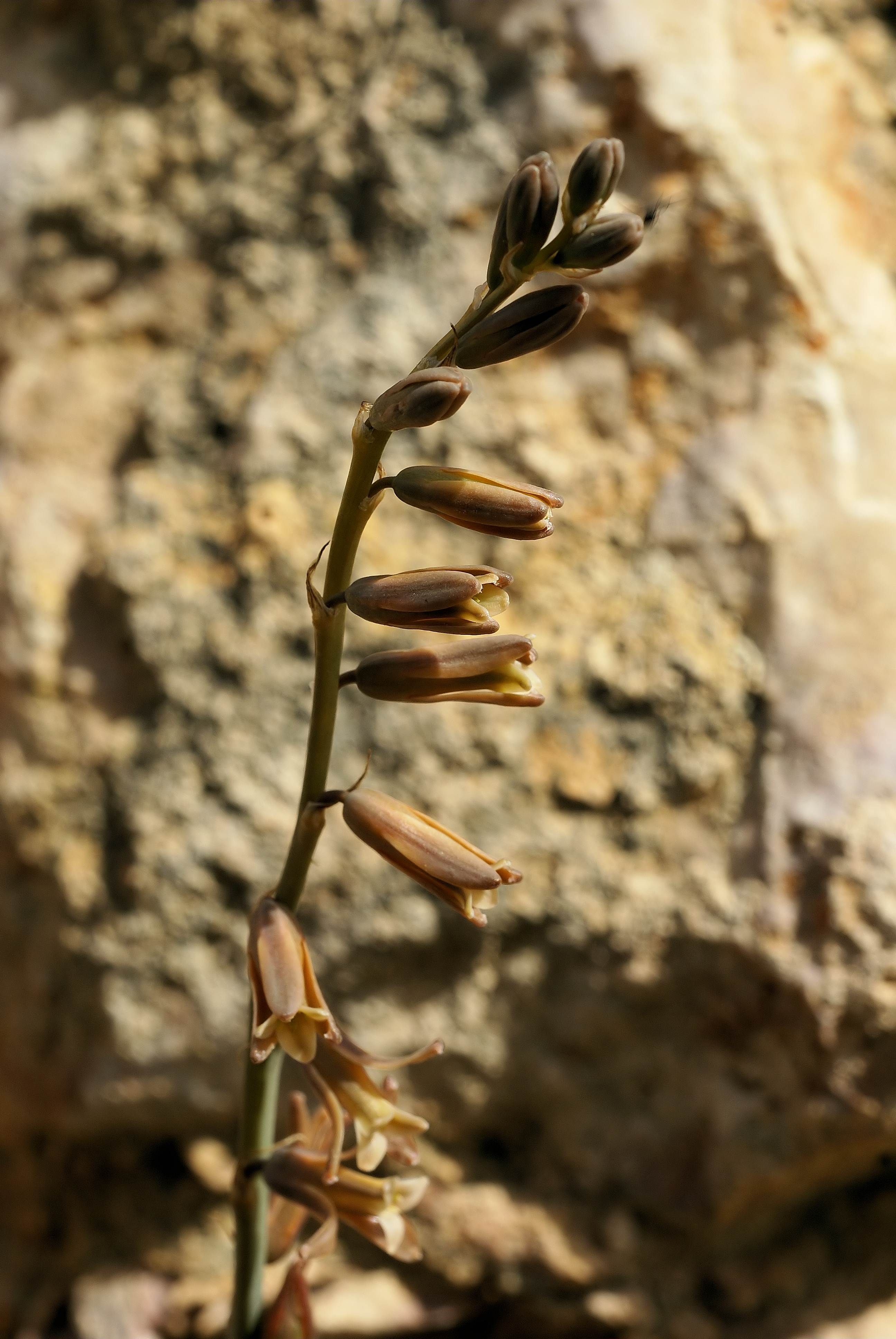 Brown-flowered Squill near el Perelló, Catalonia, Spain